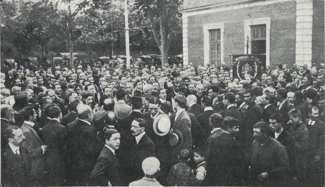 Carlist leader